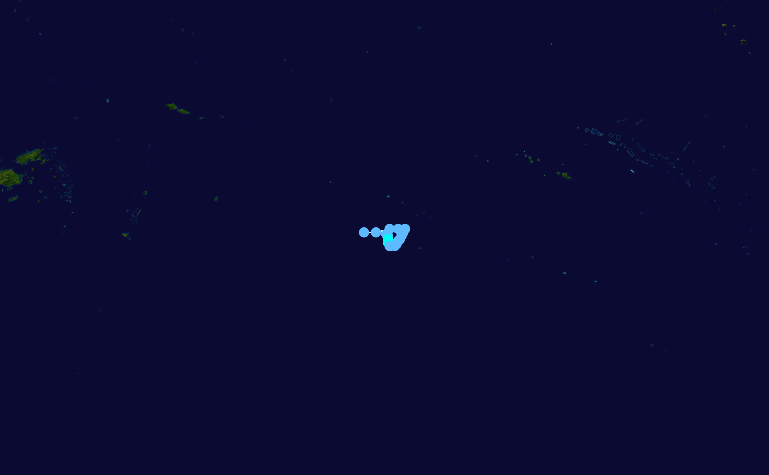 Cyclone Trina (2001) track. Uses the color scheme from the Saffir-Simpson Hurricane Scale.